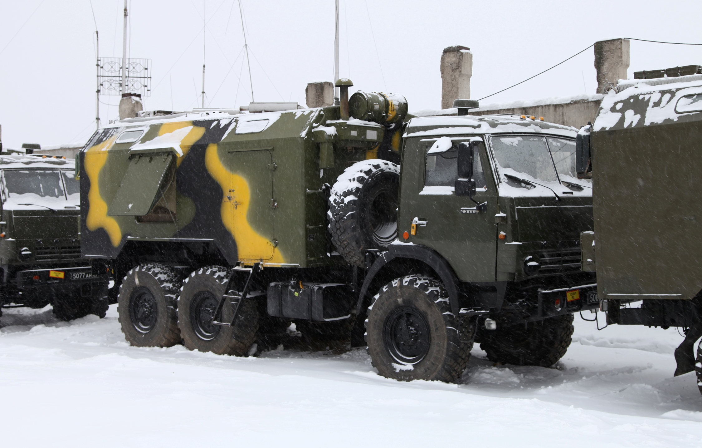 The 202nd Air Defence Brigade in the Western Military District in Russia. This air defence brigade is equipped with S-300V-SAMs. This brigade received these systems in 1989. Power supply for Group of command and control vehicles carried out by three diesel generators on the base of KAMAZ-43114.